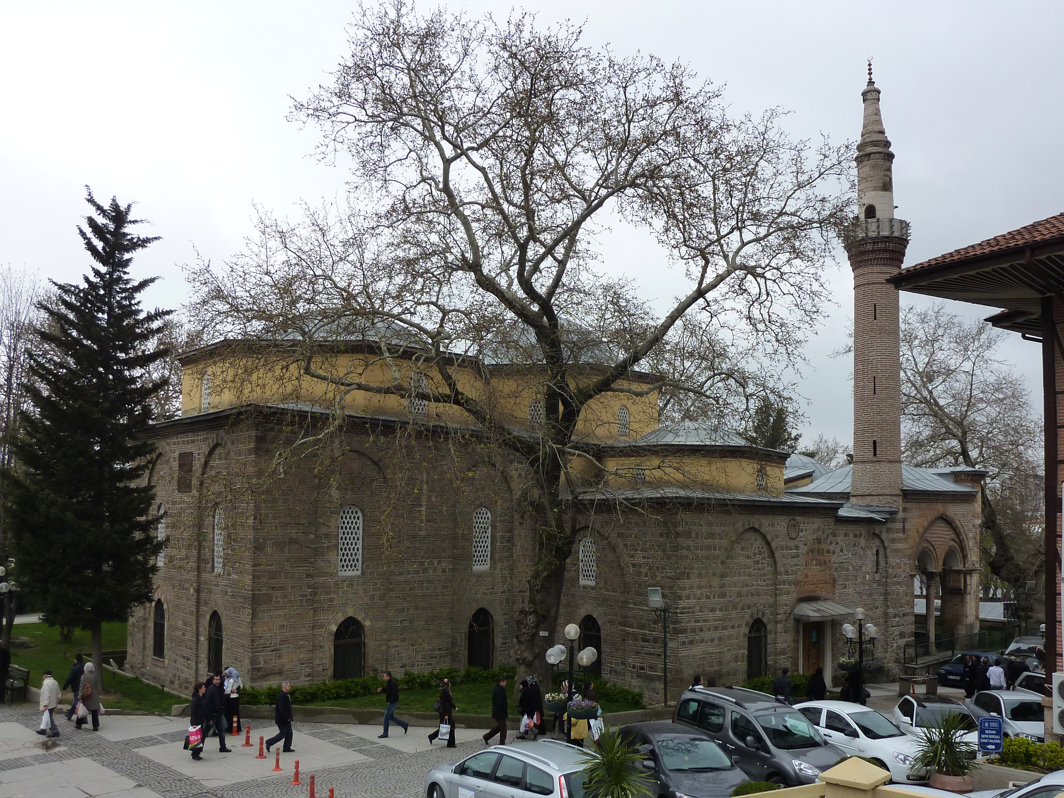 Orhan Gazi Mosque, Bursa, Turkey